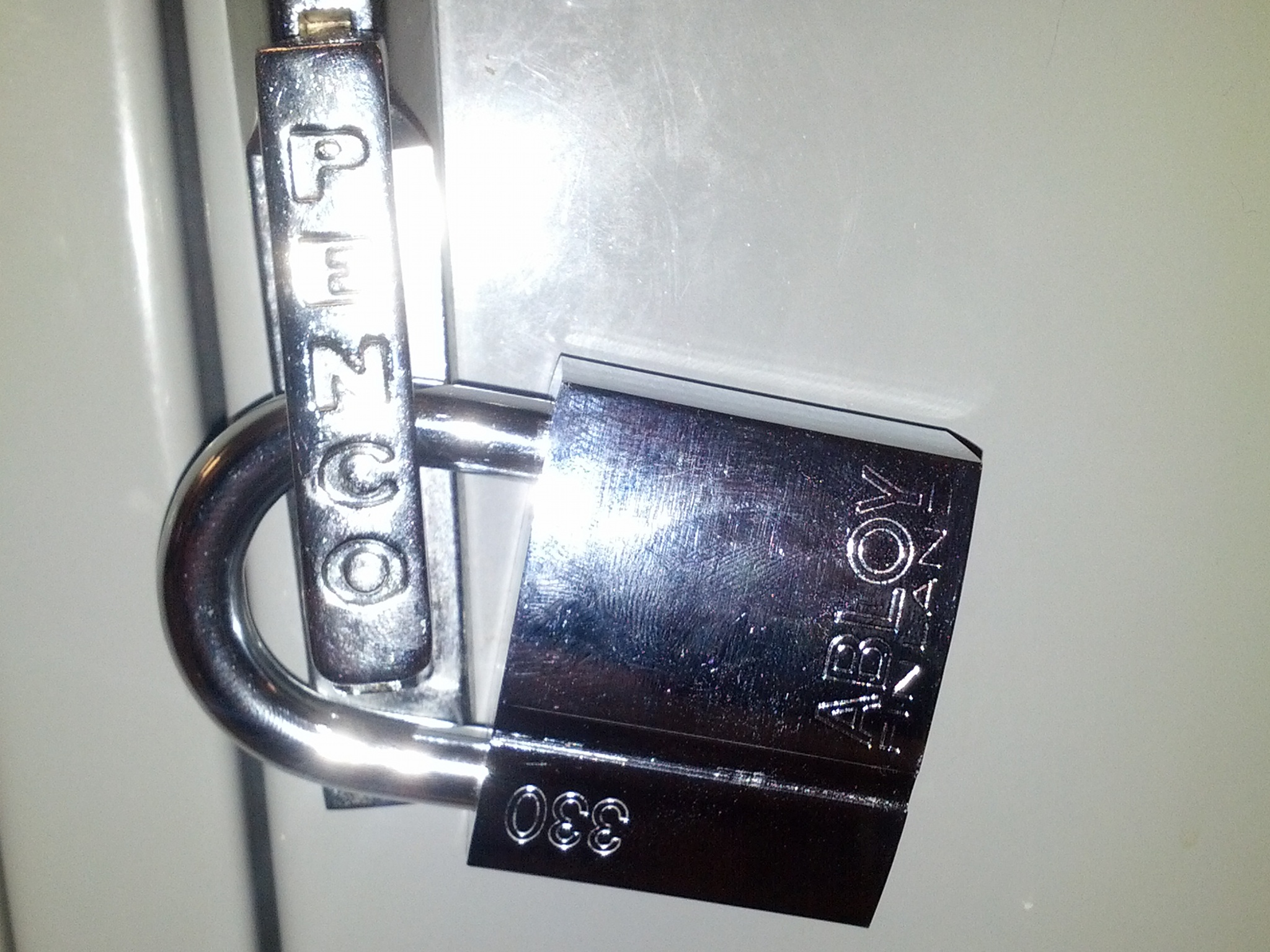 An Abloy Protec PL330 padlock, made in Finland